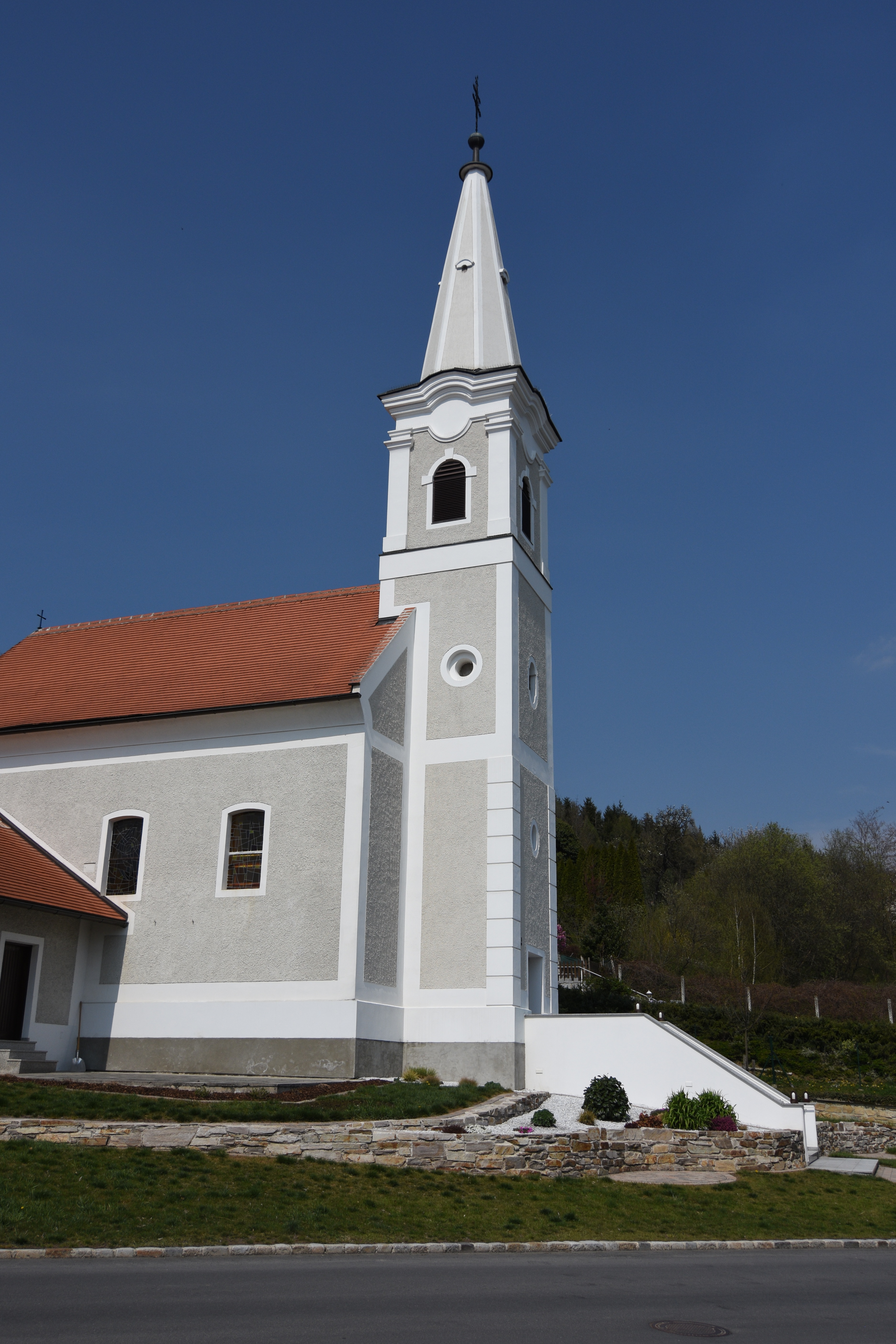 Church Bubendorf im Burgenland